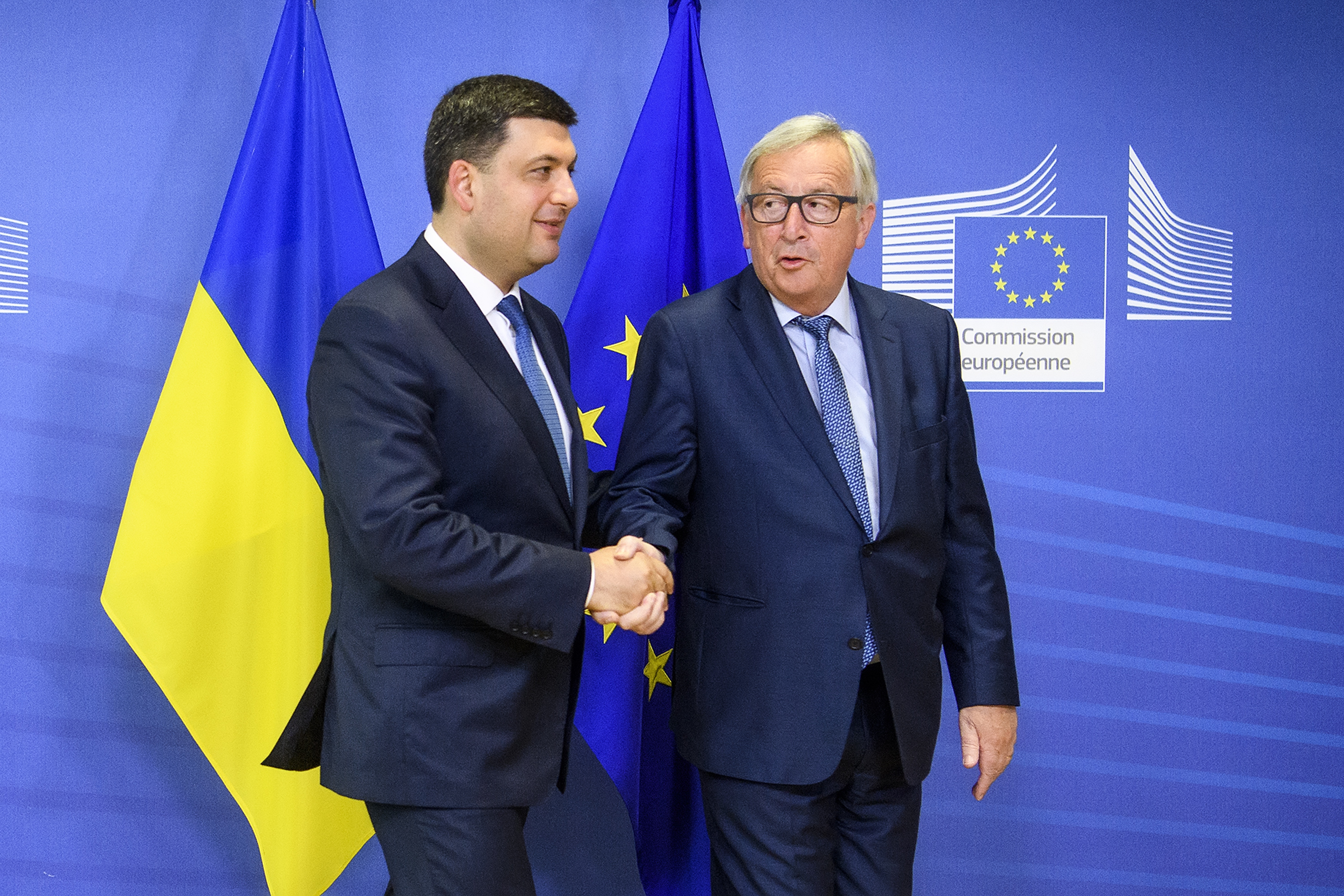 During a visit to Brussels, Prime Minister of Ukraine Volodymyr Groysman had talks with Jean-Claude Juncker, President of the European Commission